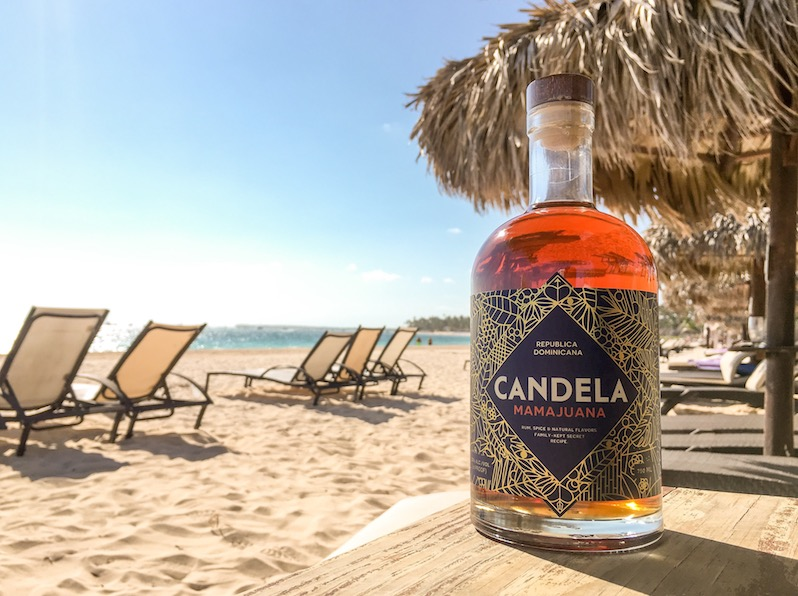 Candela Mamajuana bottle on the beach in Punta Cana, Dominican Republic.